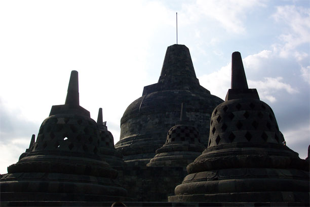 Photographed by Dimas Yusuf in August 2004.